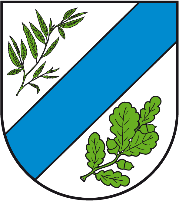 Coat of Arms of VG Calvörde